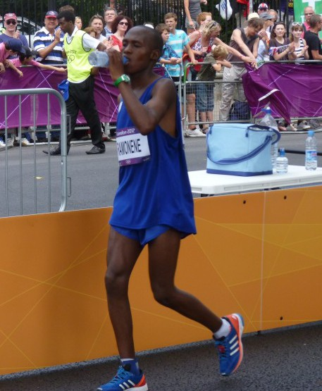 Tsepo Ramonene of Lesotho, last (but receiving the loudest cheers) in the Men's Marathon, passing along the Victoria Embankment, 12 August 2012 (he was walking at this point but started running again soon after). See his promotional video